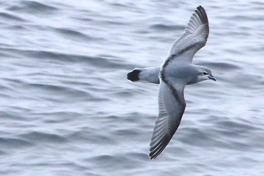 Fulmar Prion (Pachyptila crassirostris), Heard Island